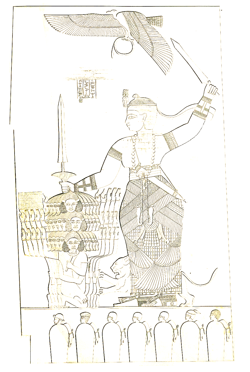 19th century copy of a relief from Naga, depicting Amanitore while smiting her enemies.